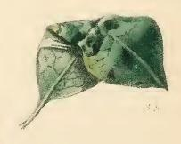 Stainton’s Natural History of the Tineina (1855–1873): Phyllonorycter emberizaepennella mined honeysuckle leaf